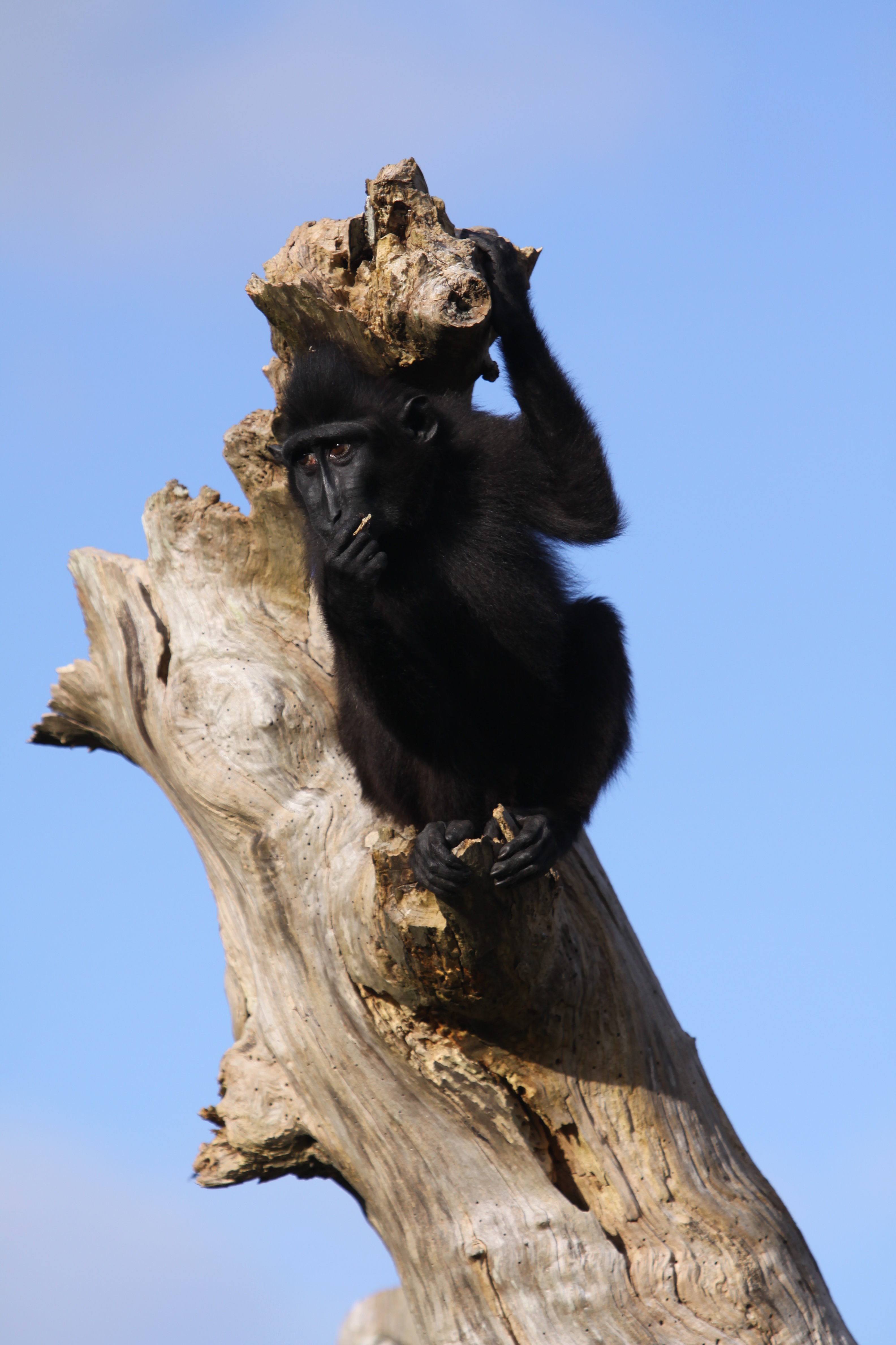 Celebes crested macaque (Macaca nigra) at Durrell Wildlife Park (Jersey)